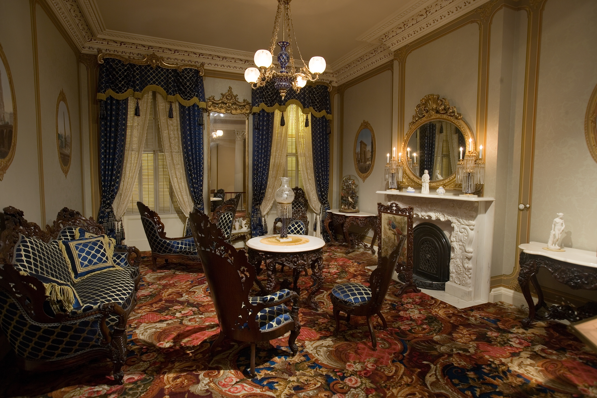 American; Architectural elements; Architecture